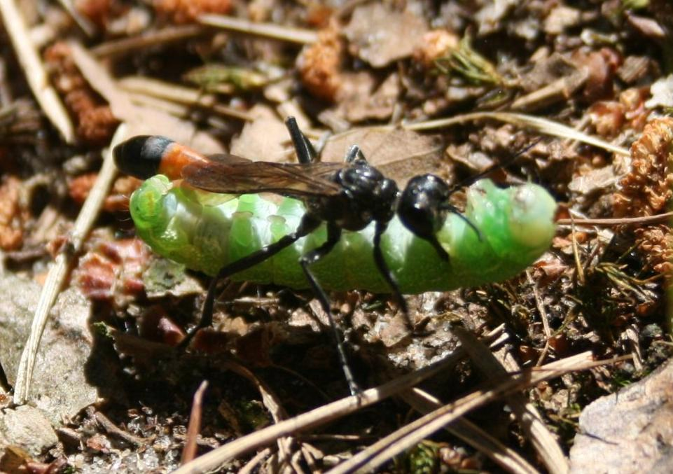 Ammophila Sabulosa - Red-banded sand wasp carrying a caterpillar